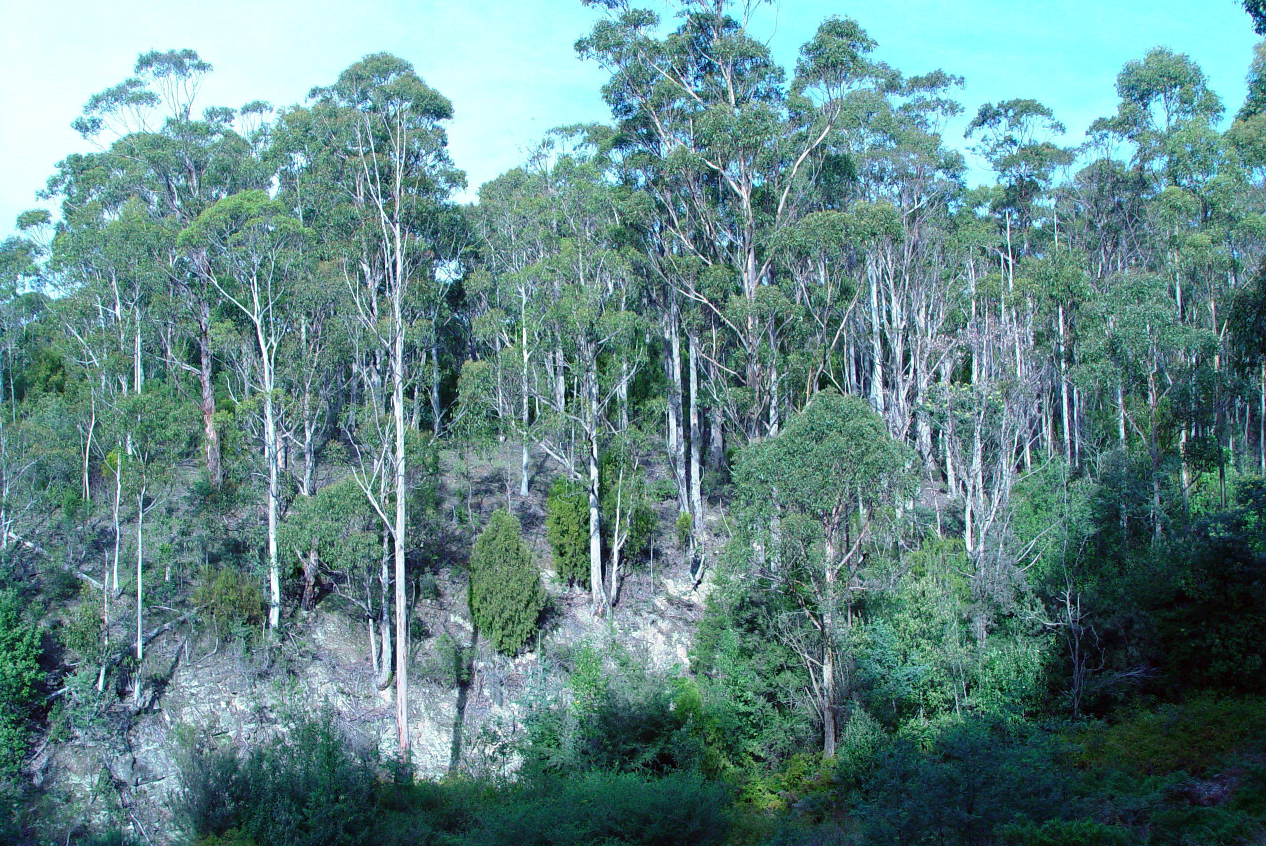 Eucalyptus forest on the Eastern slope of Mount Wellington, Tasmania, Australia